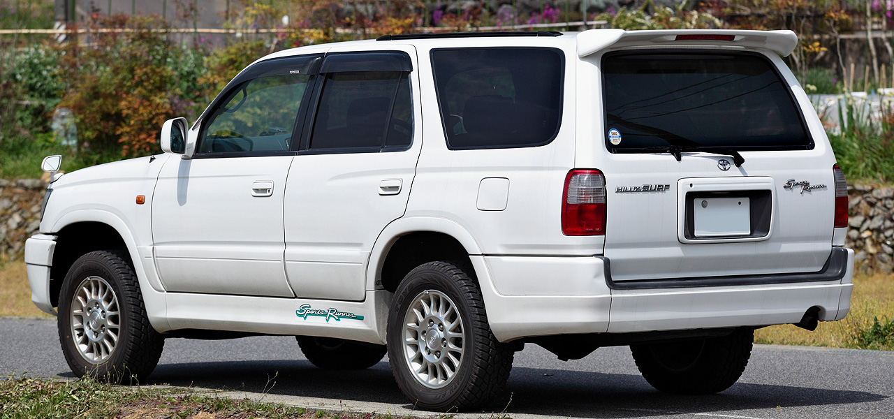 Toyota Hilux Surf 2.7 Sports Runner ( 2WD, RZN180W )